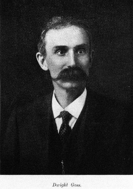 Photograph of Grand Rapids, Michigan, attorney Dwight Goss.